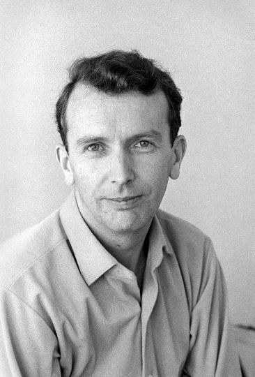 Photograph of the Finnish film director Matti Kassila (1924–2018).